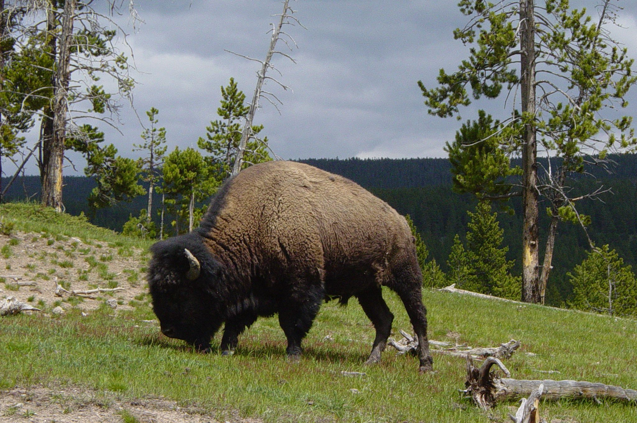 Photo taken in the Yellowstone area.